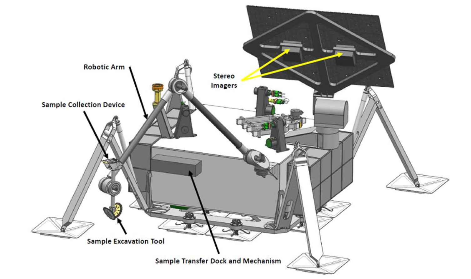 Europa Lander spacecraft : Overview-of-the-sampling-system-hardware